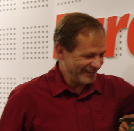 Romanian alpinist David Neacşu in 2008.